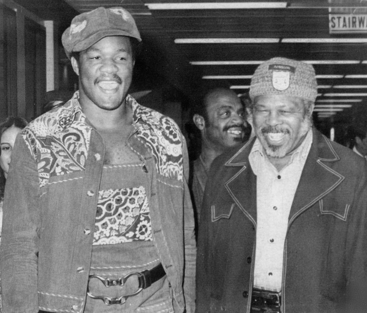 Boxer George Foreman & Archie Moore on way to Zaire 1974 Press Photo Boxing